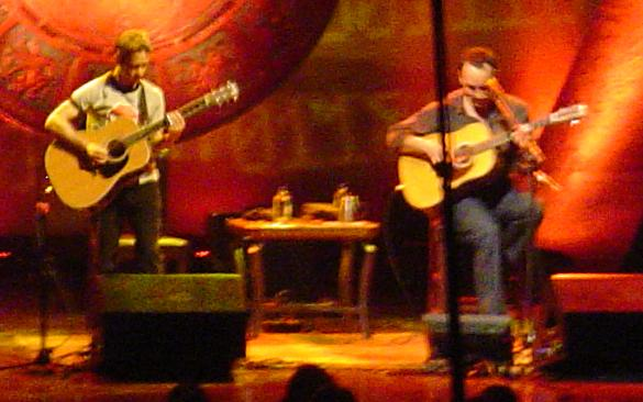 Tim Reynolds with Dave Matthews live in Boston